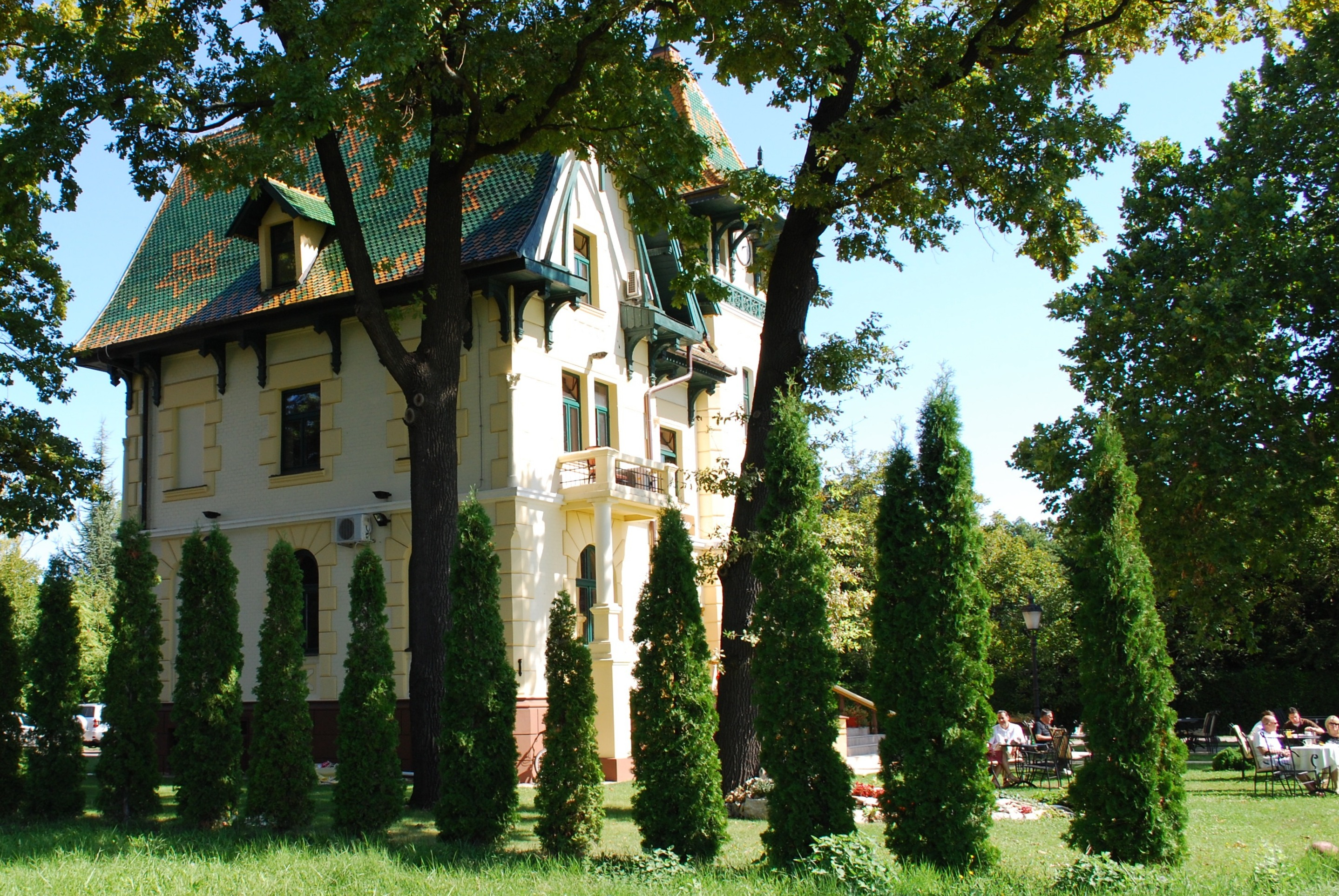 Vila Lujza - One of the Villas surround Lake Palics